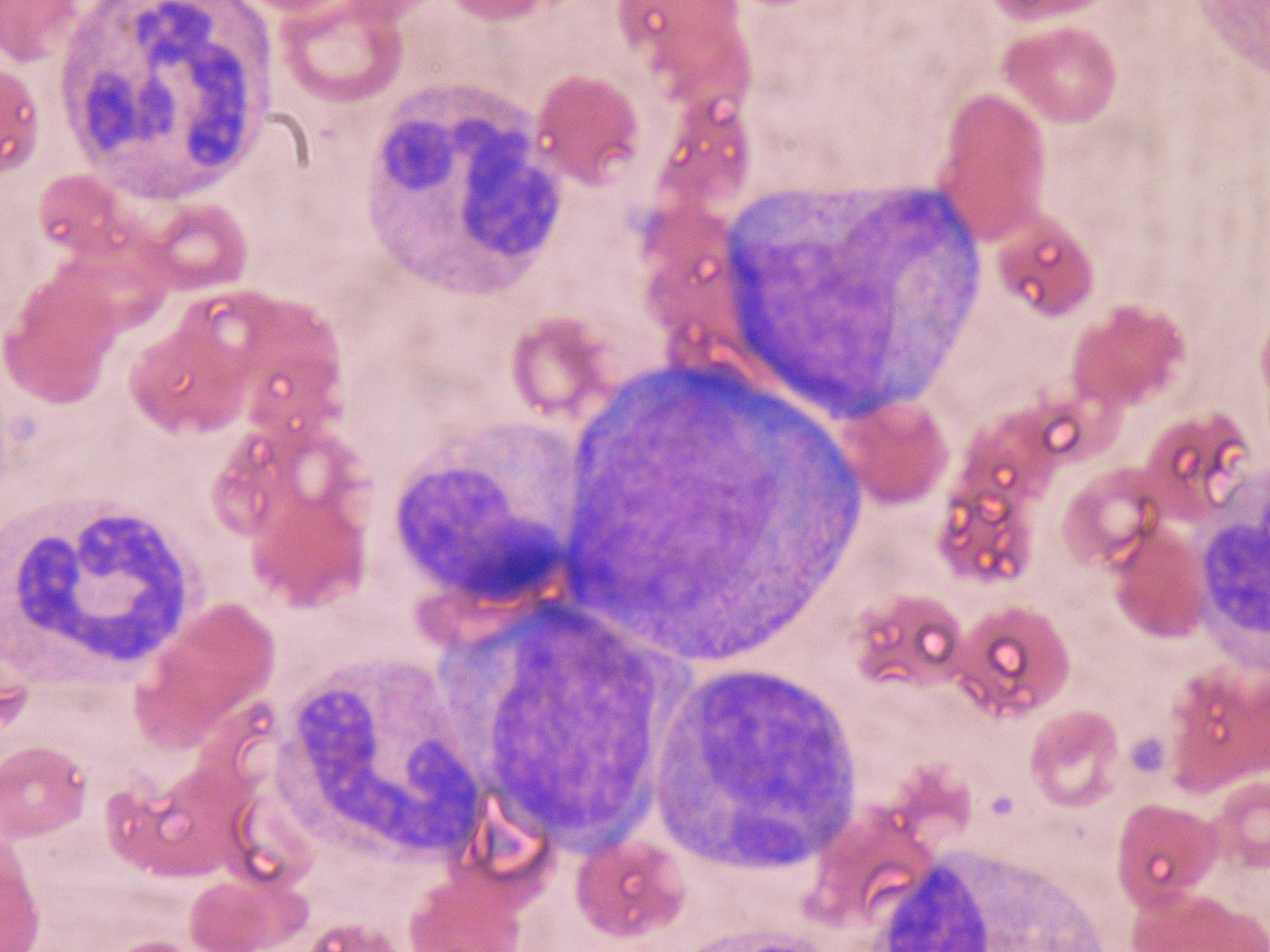 Bone marrow examination of cells with Wright's stain showing neutrophil precursors: Promyelocyte in the middle, two metamyelocytes next to it, two band cells and segmented neutrophils at the top left.